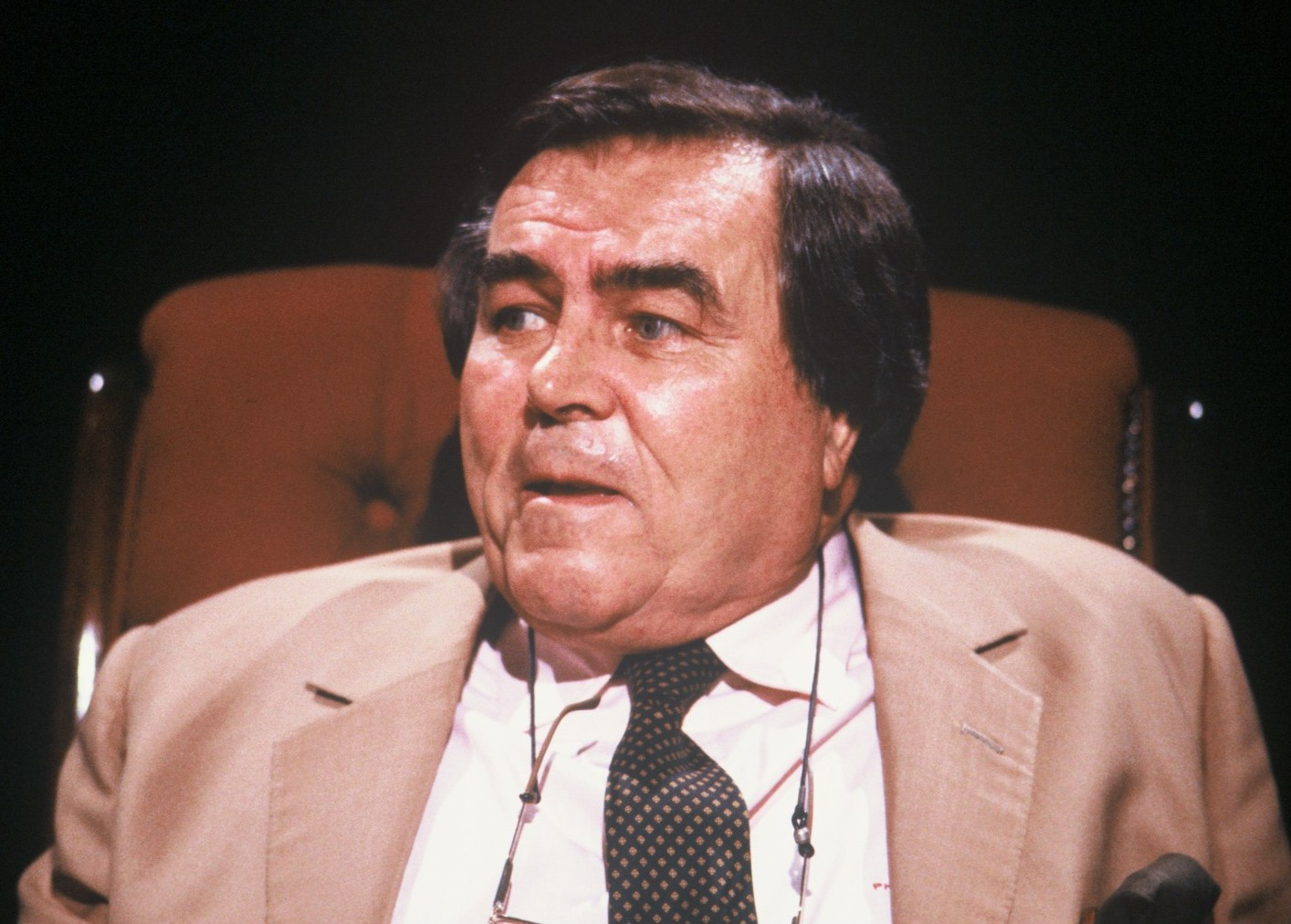 Philippe Daudy appearing on After Dark on 10 July 1987. Other guests included Eli Rosenbaum, Neal Ascherson, Paul Oestreicher and Jacques Vergès. More here.